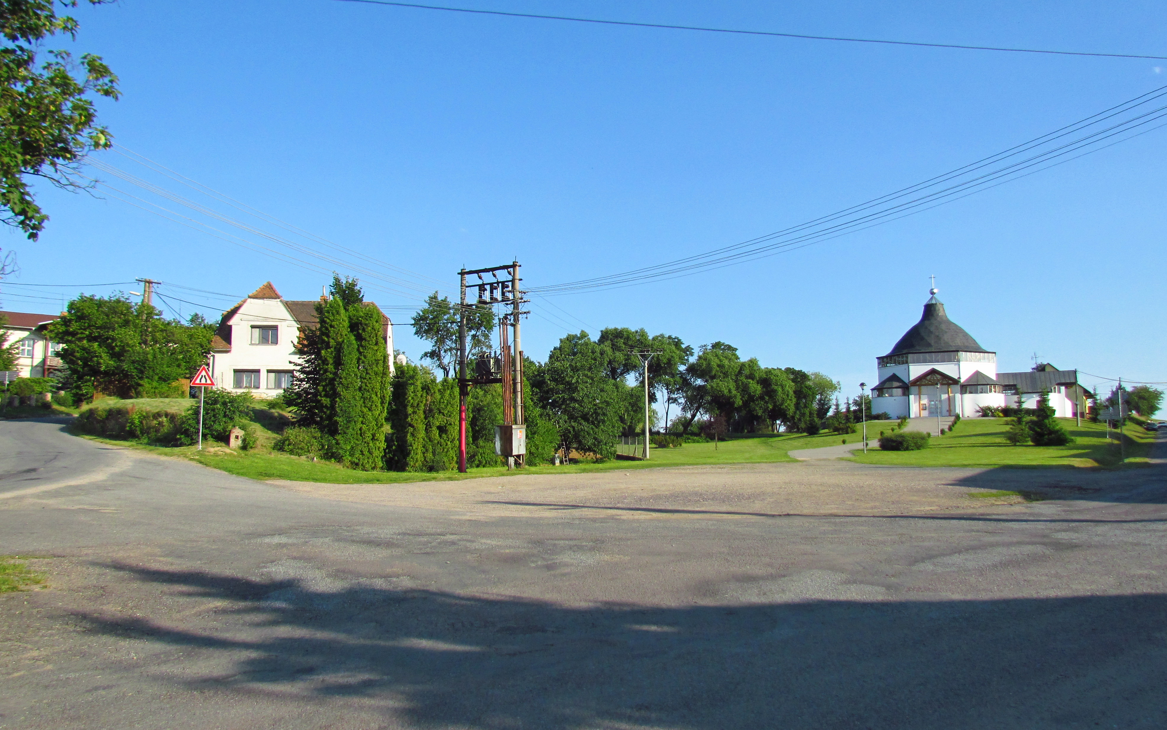 Center of Tavíkovice, Znojmo District.